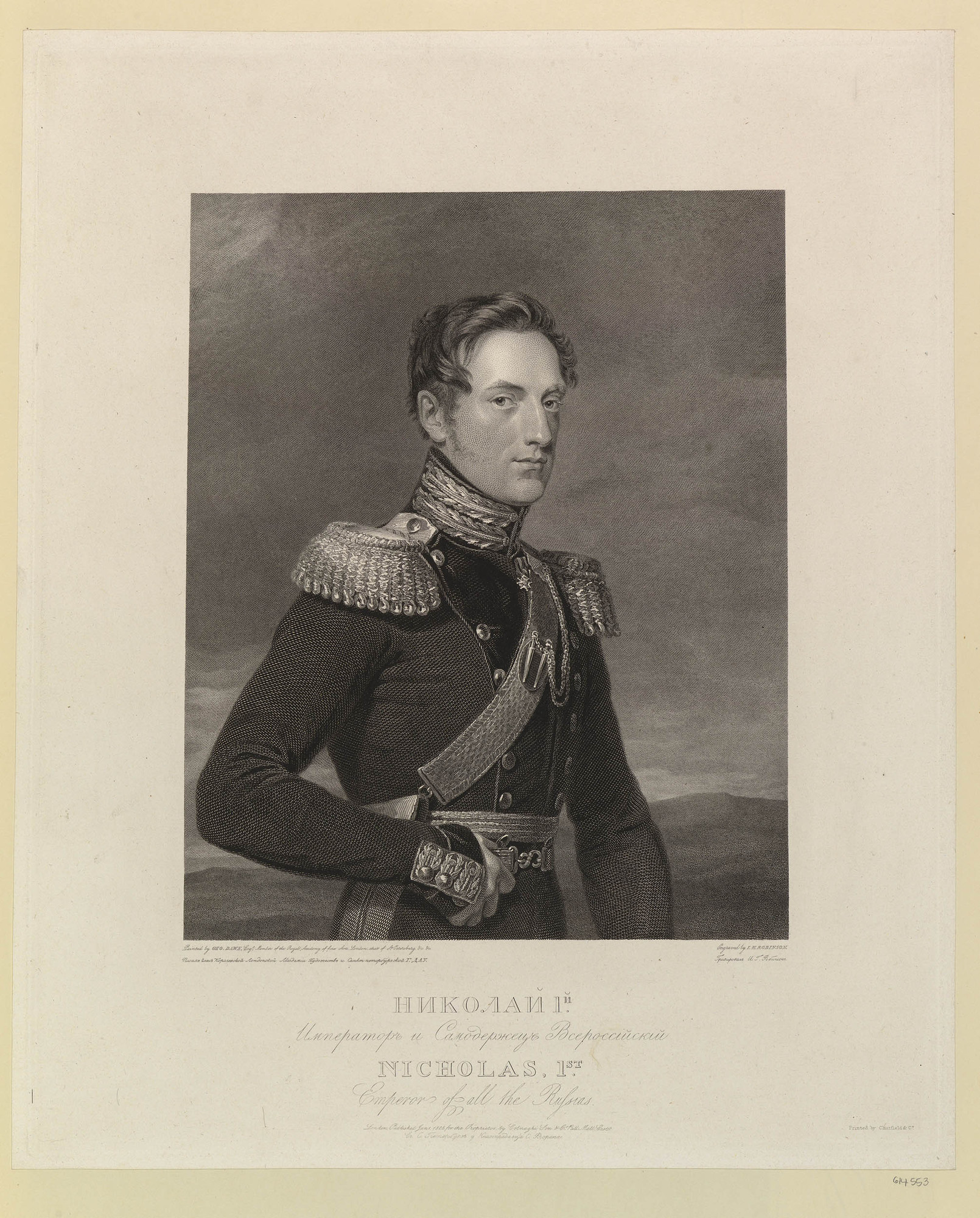 Nicholas I